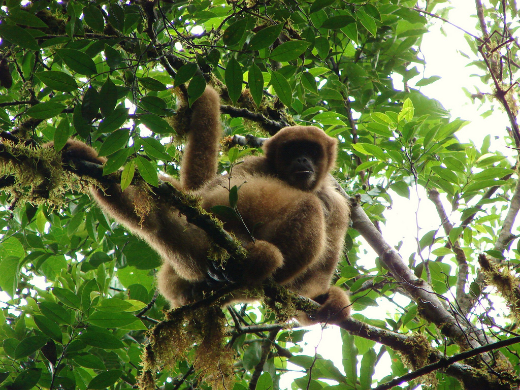 Southern muriqui (Brachyteles arachnoides) in Carlos Botelho State Park.